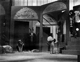 Shahr Ghesed, Shiraz art festival, 1968